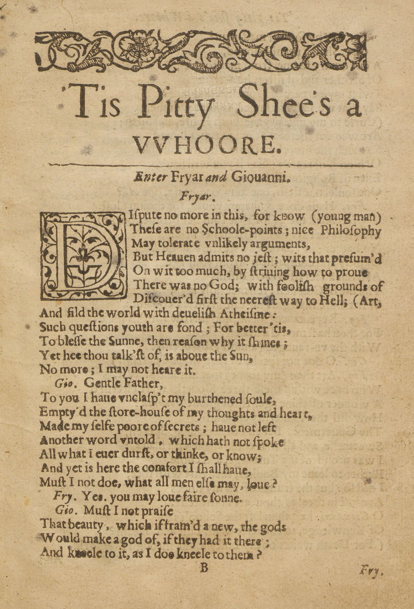 Page 11 from Tis Pitty Shee's a Whore, acted by the Queenes Maiesties Seruants, at The Phoenix in Drury-lane, by John Ford (1586 – c.1640). London, Printed by Nicholas Okes for Richard Collins, and are to be sold at his shop in Pauls Church-yard, at the signe of the three Kings. 1633. STC 11165, Houghton Library, Harvard University